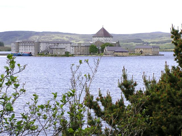 Purgatory at Lough Derg Zooming in to get the maximum view.